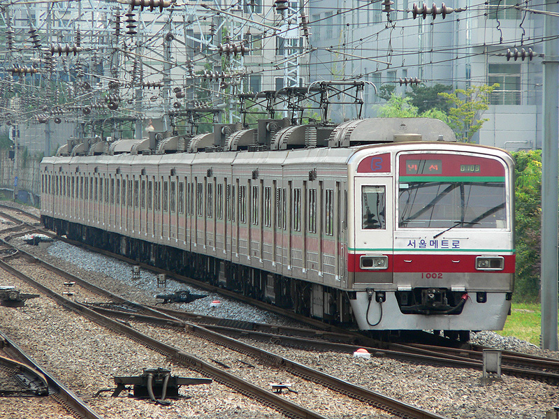 Seoul Subway Line1 VVVF Train (belonging to SeoulMetro)